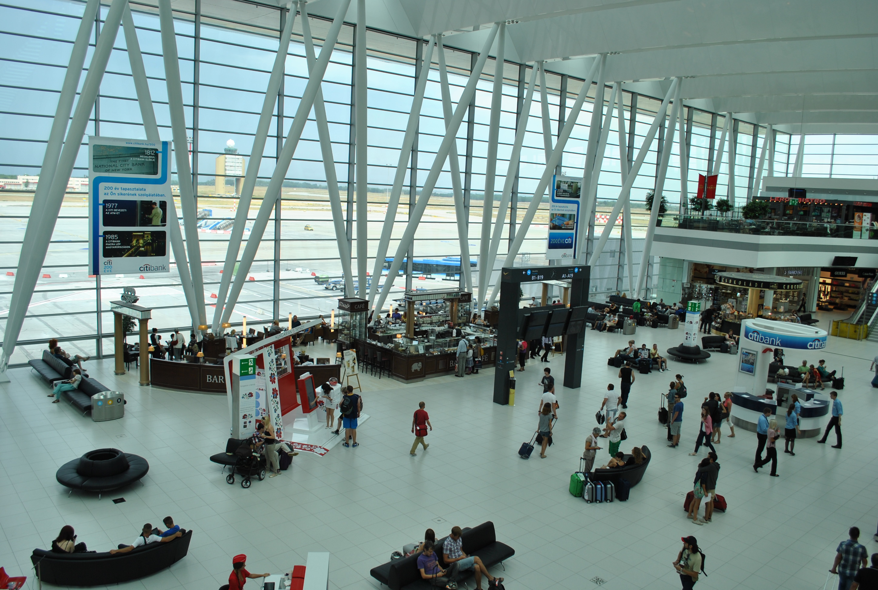 Budapest Liszt Ferenc International Airport inside of SkyCourt